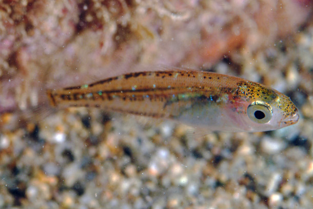 Juvenile Centracanthus cirrus photographed in Tuscany (Italy). Photo by Stefano Guerrieri.